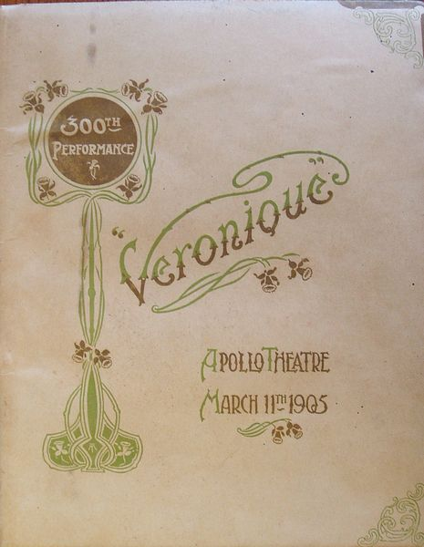 Souvenir of the 300th performance of Véronique at the Apollo Theatre in London.